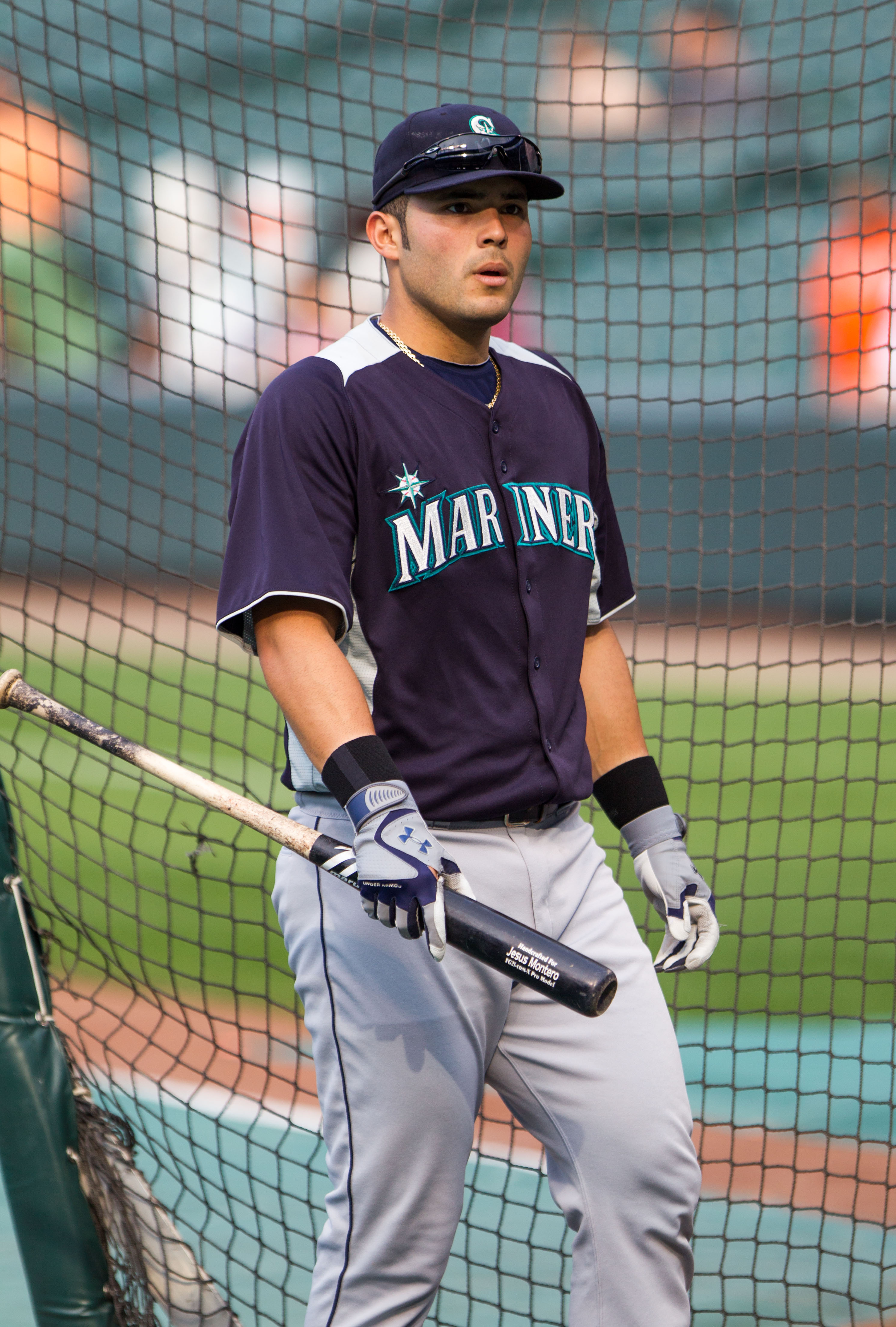 Mariners at Orioles August 6, 2012